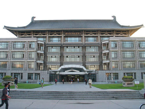 the Library of Peking University.